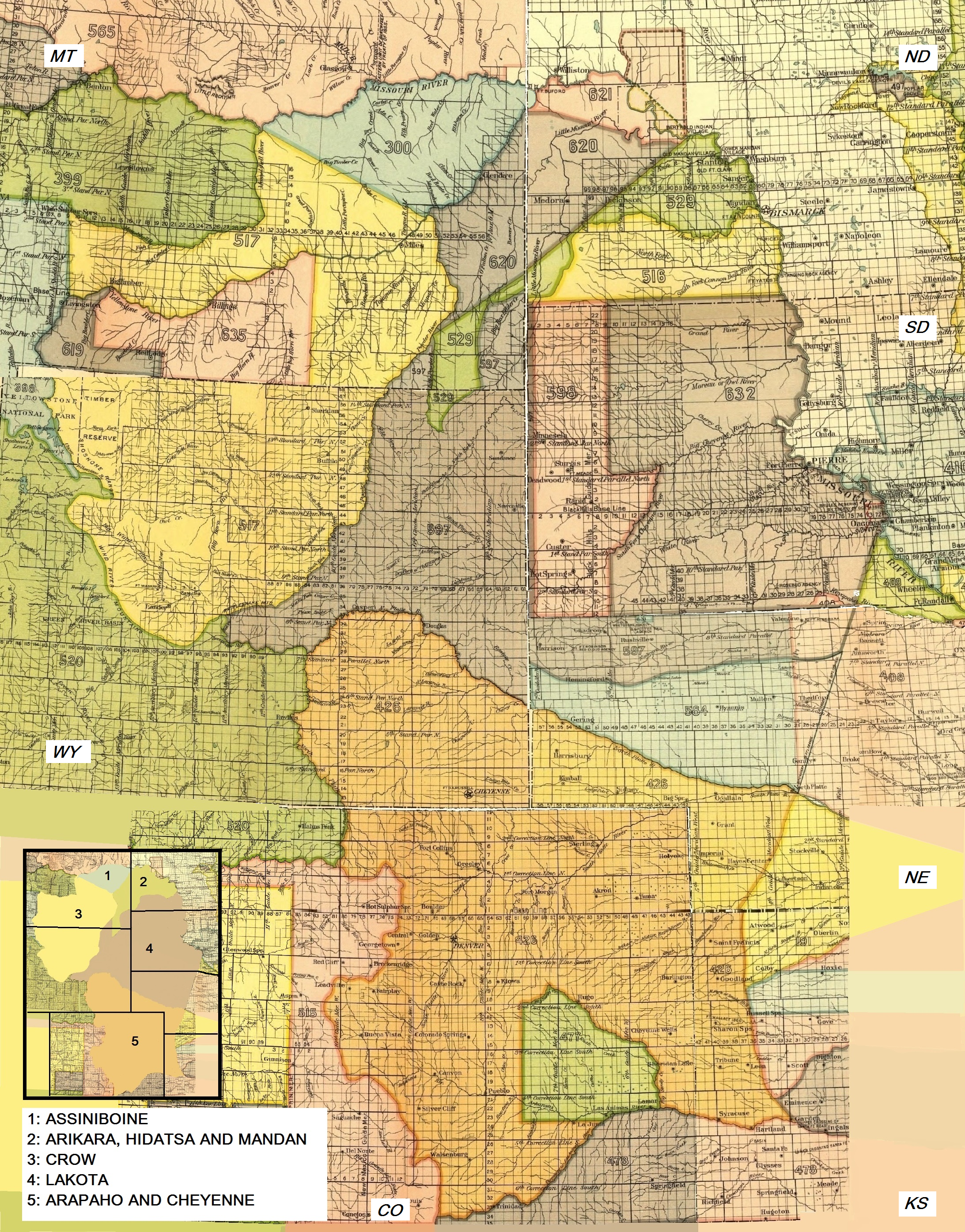 Map indicating the Indian territories as described in the Treaty of Fort Laramie (1851)